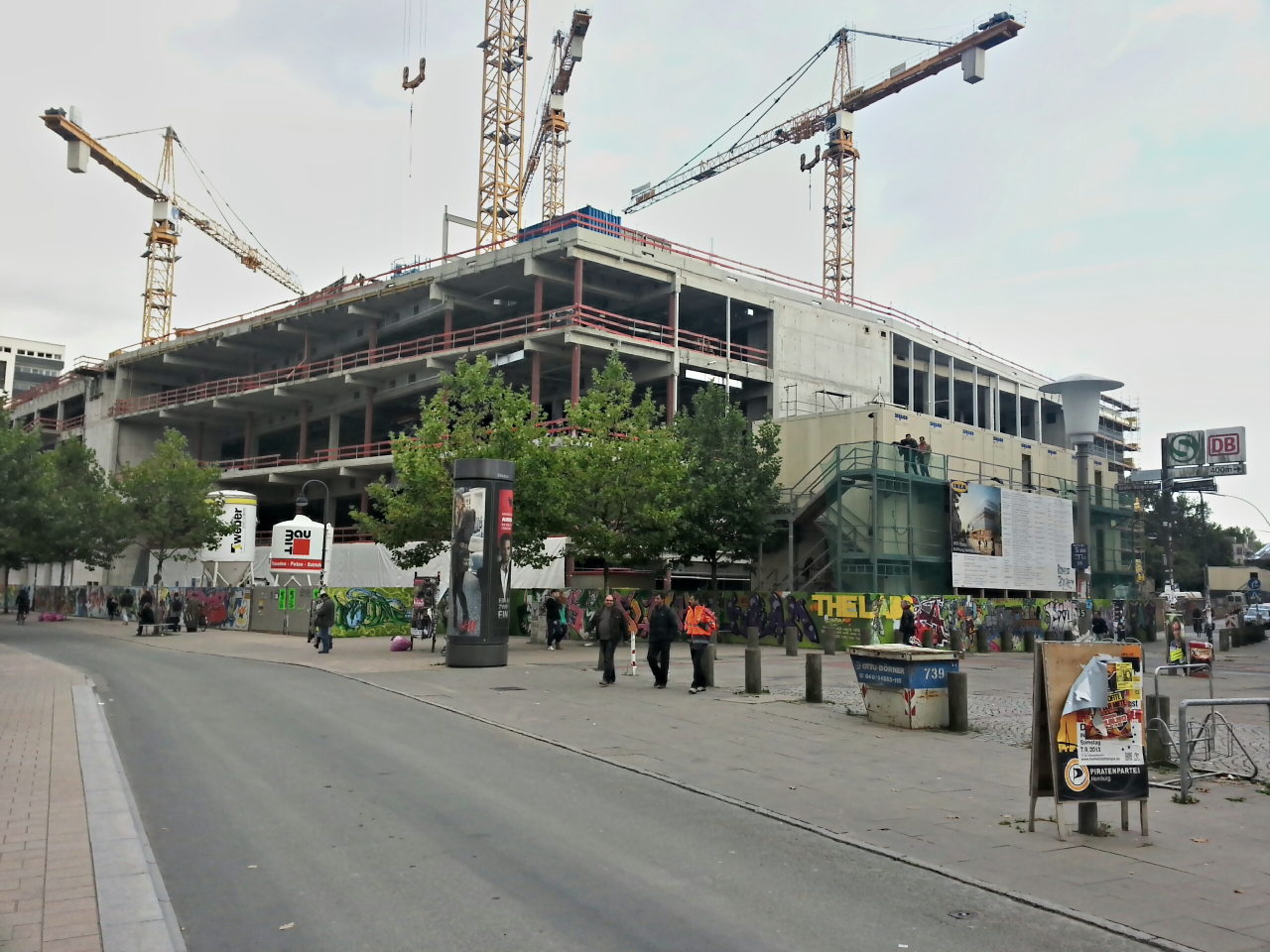 Construction works, Altona, Hamburg, Germany, 27. September 2013